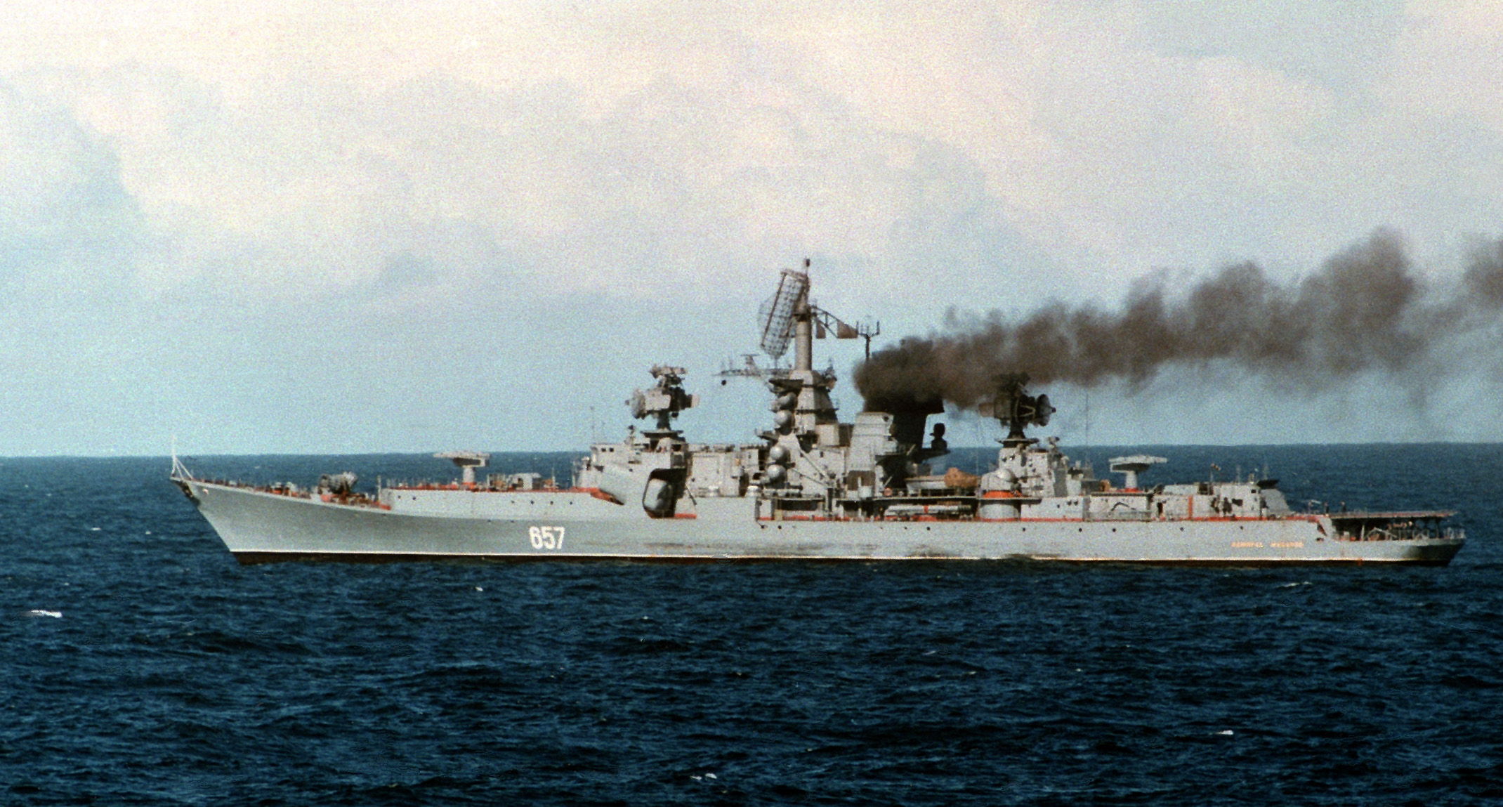 Soviet Kresta II class guided missile cruiser ADMIRAL YUMASHEV.